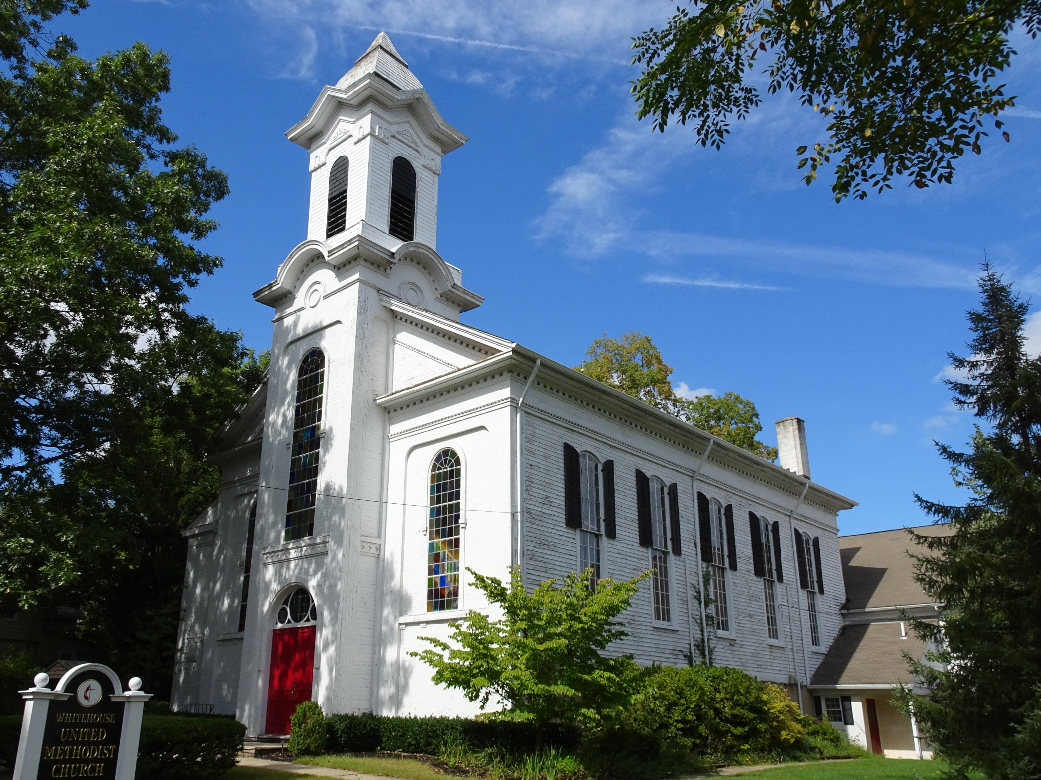 United Methodist Church at 73 Old Highway 28 in Whitehouse, New Jersey. Contributing property. Built circa 1867 date QS:P,+1867-00-00T00:00:00Z/9,P1480,Q5727902. Italianate style.